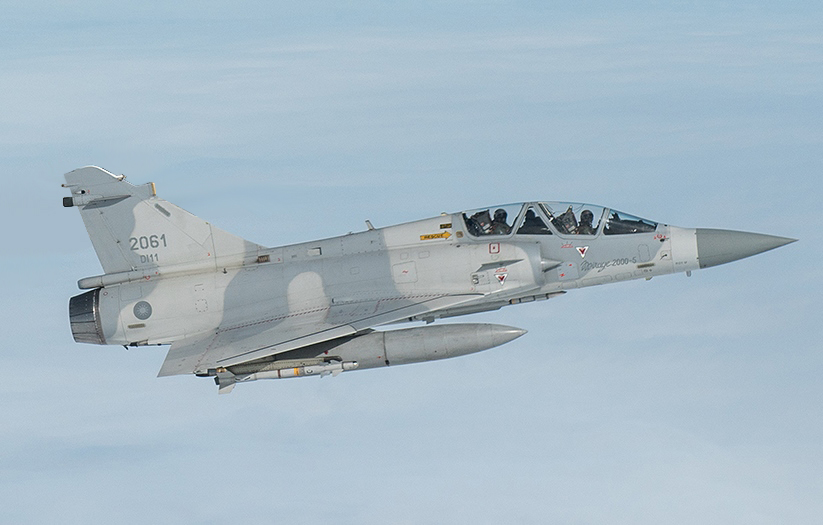 Mirage-2000 fighter jet escorting President Tsai’s chartered plane. (2017/10/28)